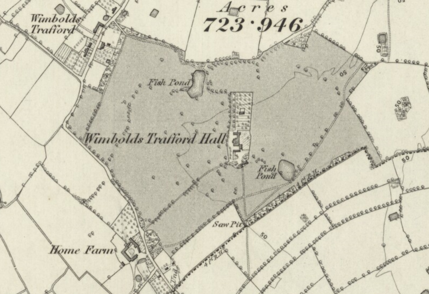 Map of Trafford Hall, Chester in 1871